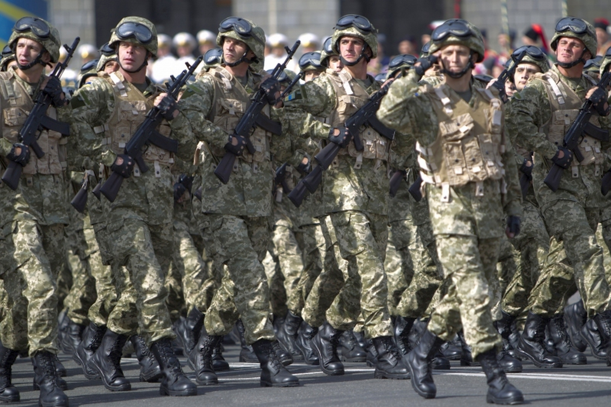 The participants of the military parade on the occasion of Independence Day of Ukraine, in Kiev, August 24, 2014. Kiev city Chairman Vitaliy Klitschko took part in the military parade "I Swear to you, Ukraine!" in honor of the 23rd anniversary of Ukraine's Independence. Photo by Andrey Skakodub / press service of the KSCA / DYVYS